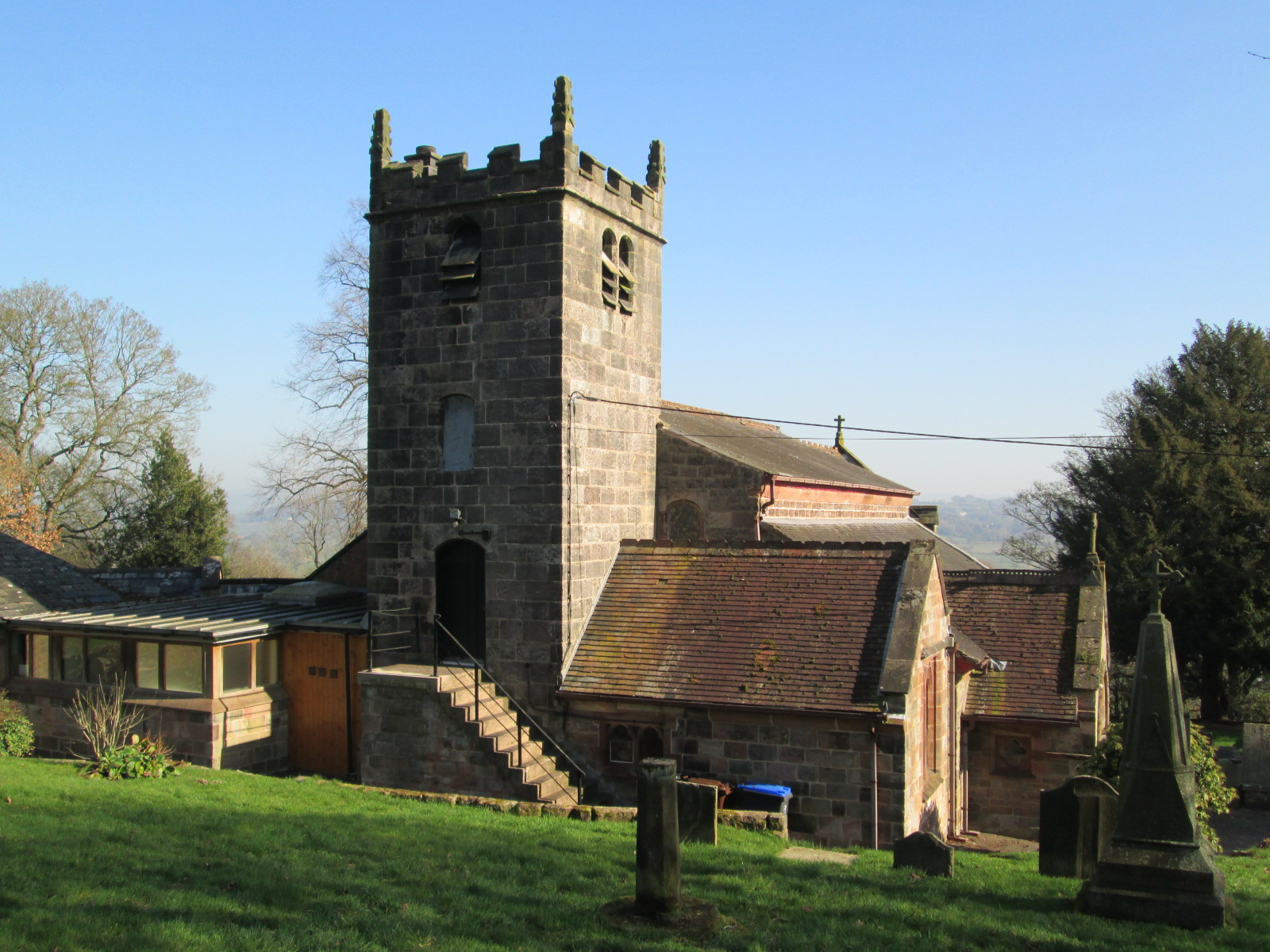 St Luke's Church, in Endon, Staffordshire, viewed from the west.